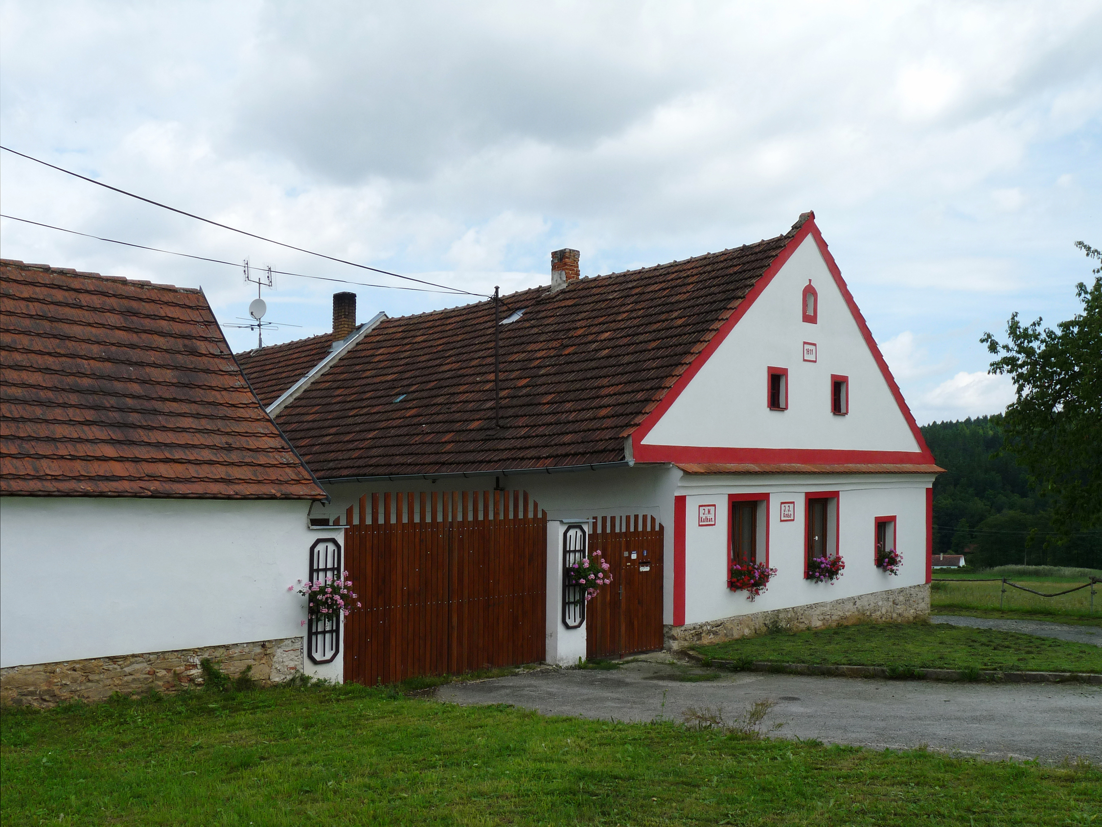 House No 1 in Jedovary, is a small village in České Budějovice District, Czech Republic. Česky: Stavení č.p. 1 ve vsi Jedovary, části města Trhové Sviny v okrese České Budějovice.